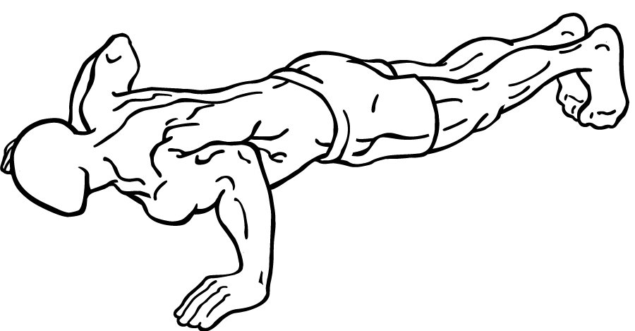 an exercise of chest